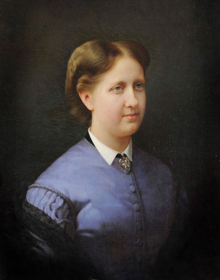 Portrait of the Princess Isabel from Brazil